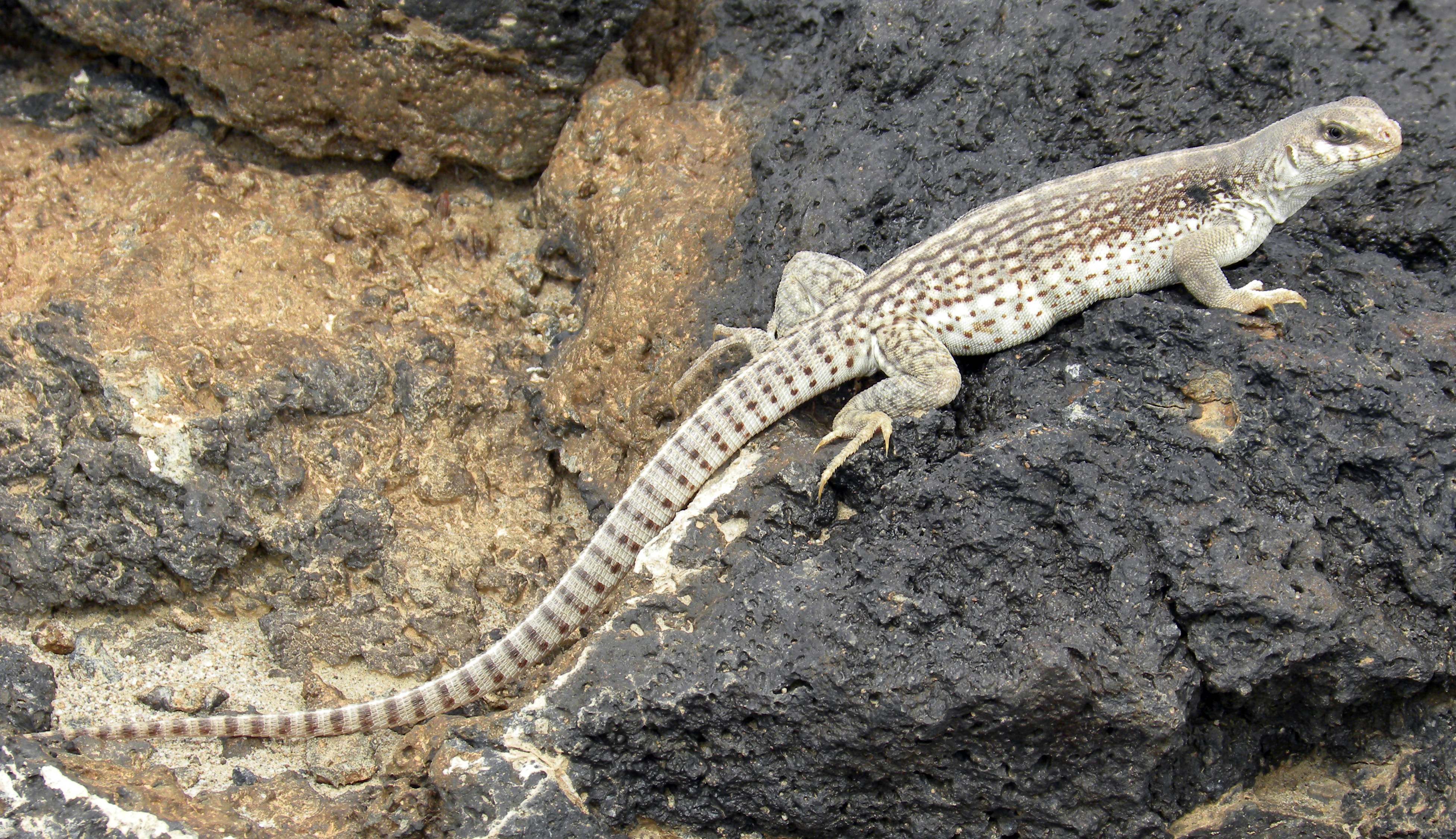 Desert Iguana (Dipsosaurus dorsalis) near Amboy Crater, Mojave Desert, California.